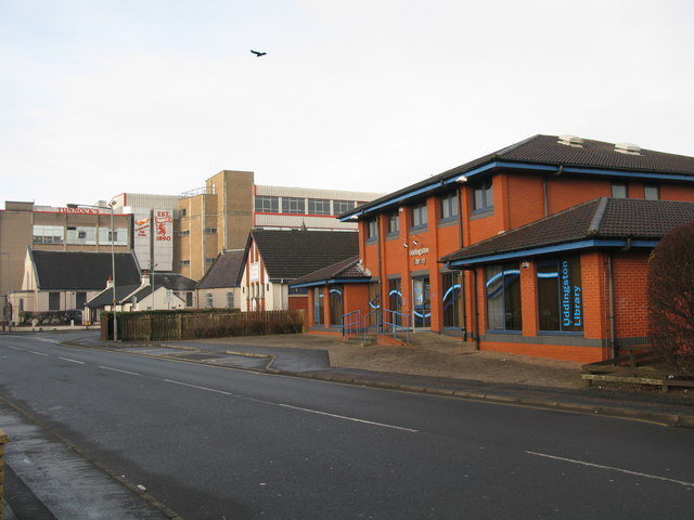 Uddingston Library To the left of the library is the Freedom Church and in the background Tunnock's Bakery.